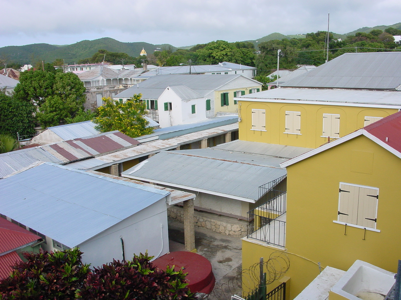 Looking east from third floor balcony, Frederiksted Hotel, Frederiksted, St. Croix, USVI